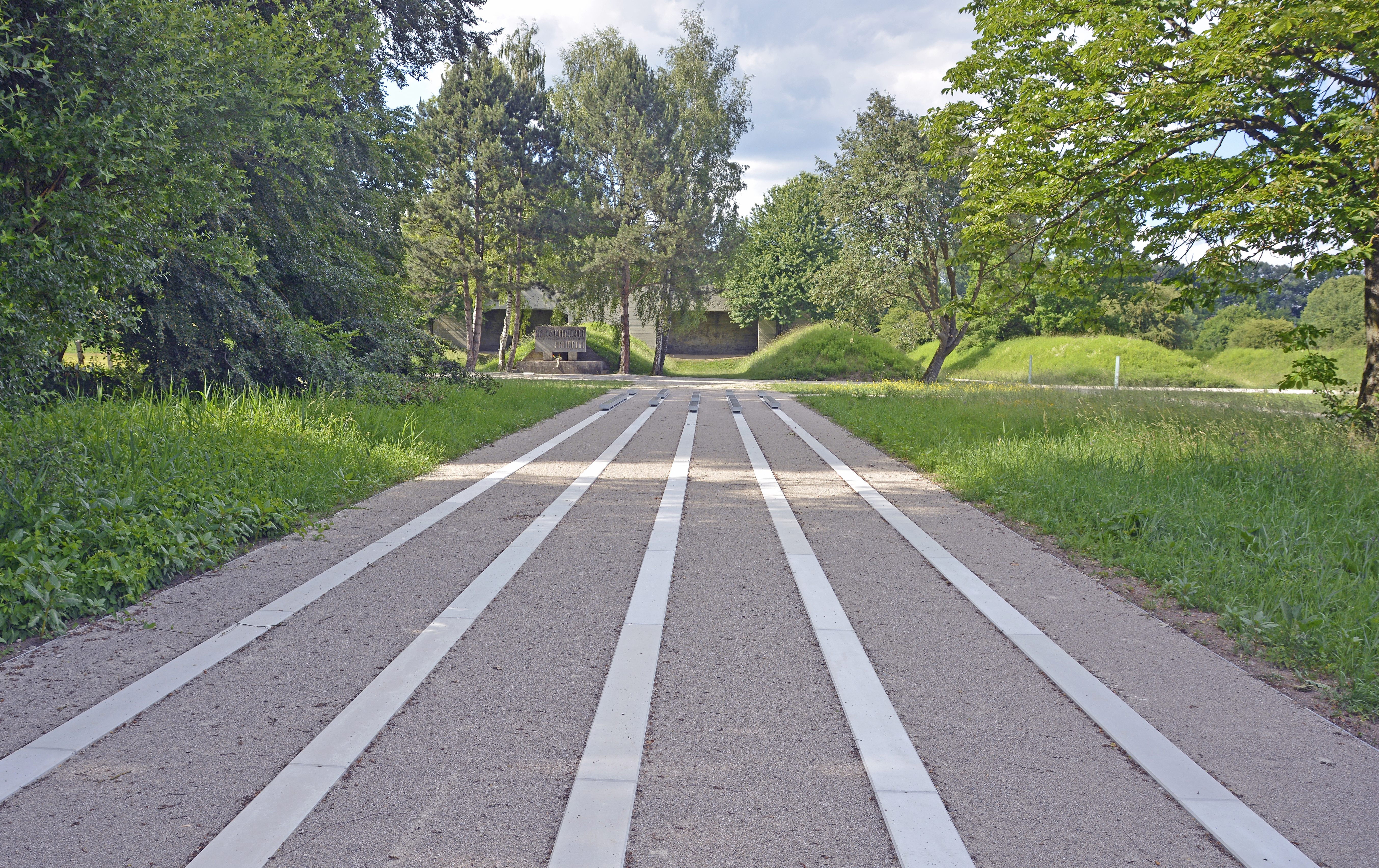 Memorial of the former SS shooting range Hebertshausen near Dachau